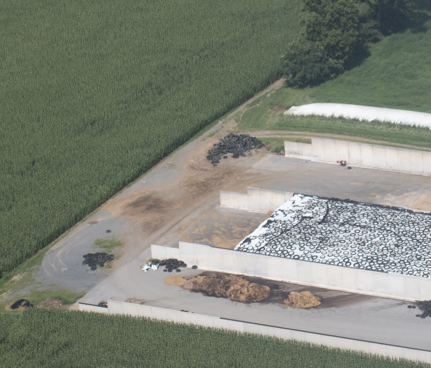 Lancaster,PA Silage topview